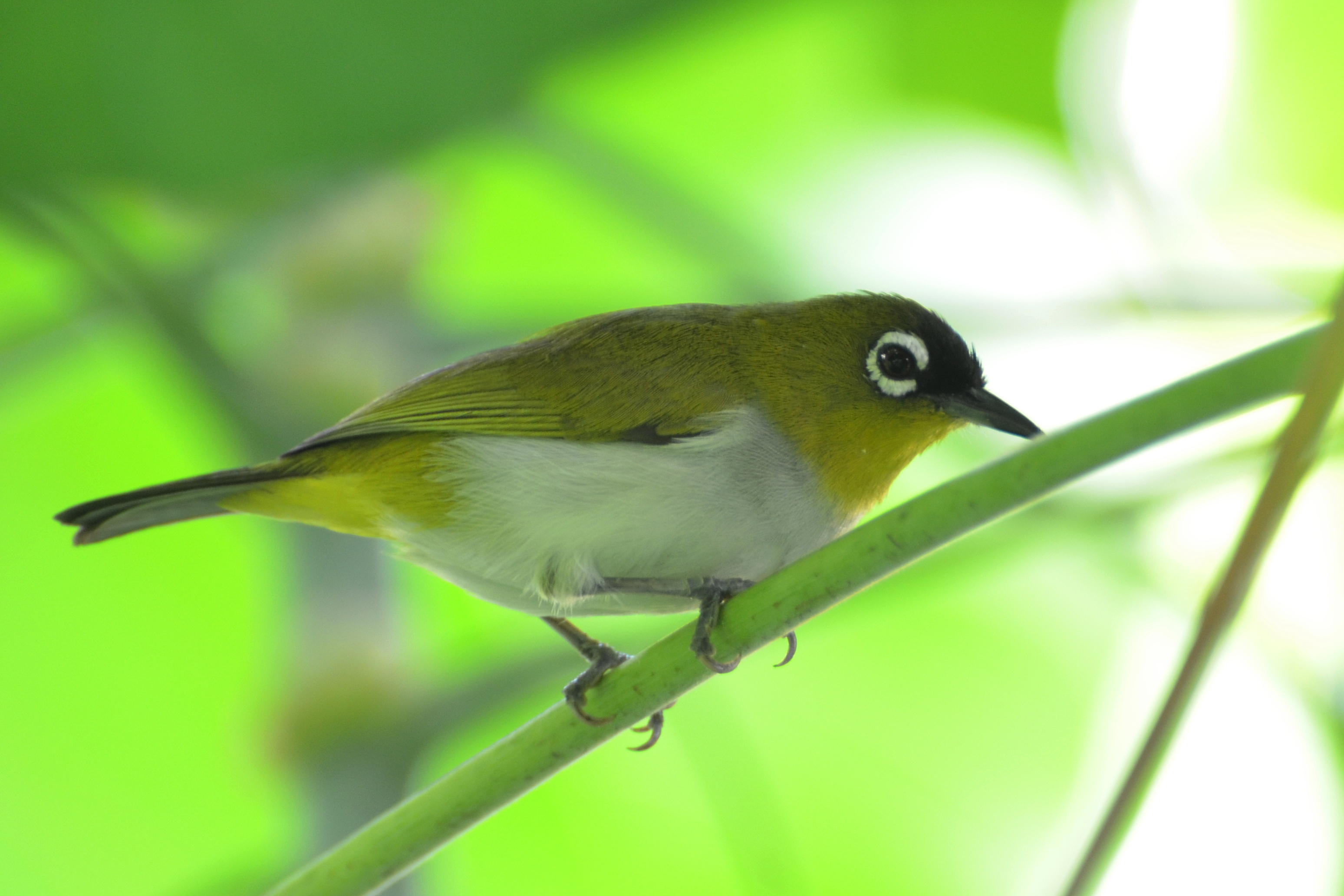 Black-crowned white-eye (Zosterops atrifrons) at Manado, North SulawesiBahasa Indonesia: Kacamata dahi-hitam (Zosterops atrifrons) di Manado, Sulawesi Utara